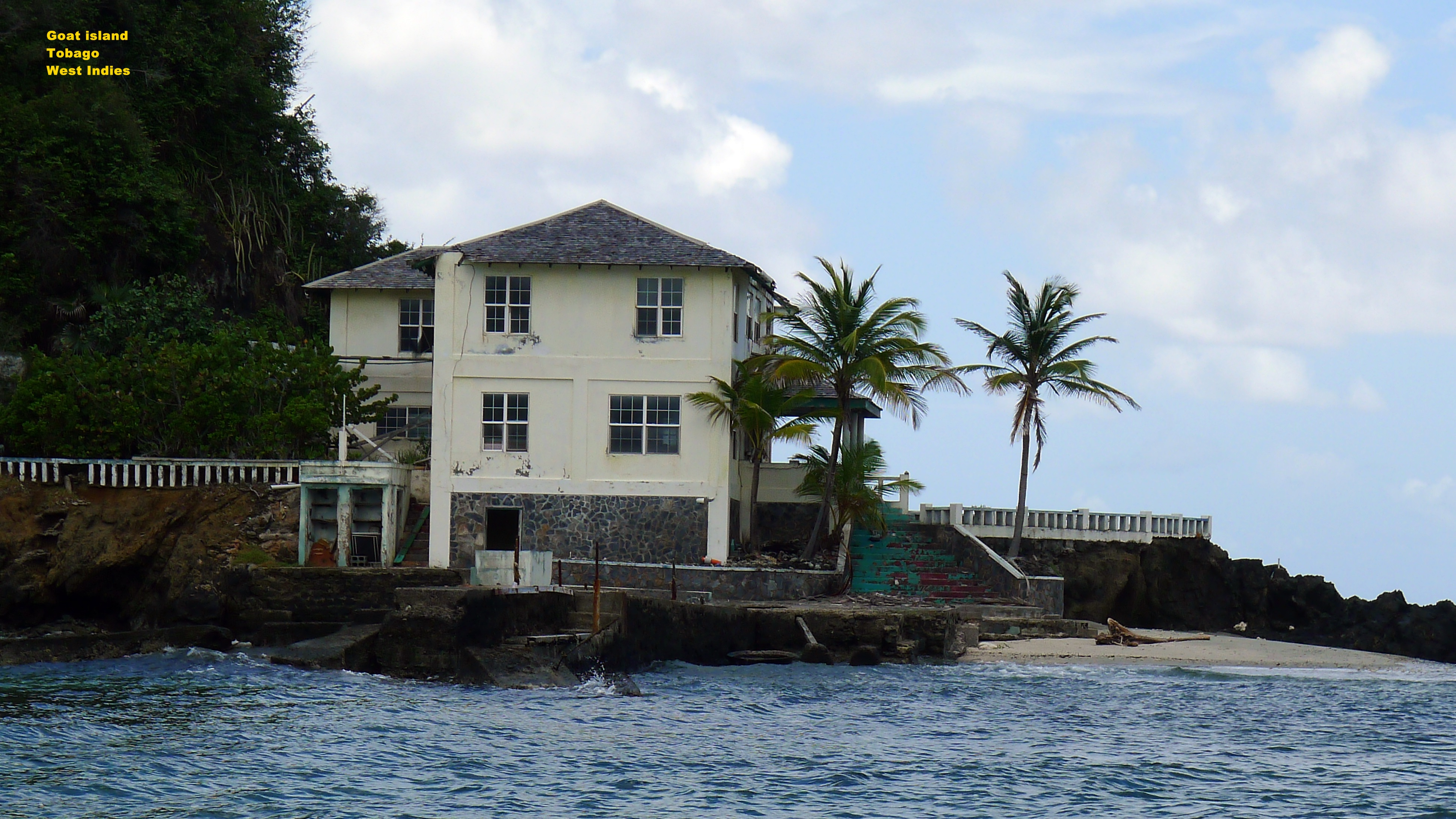 Goat island - a privately owned island off the NE coast of Tobago, West Indies. It is just to the east of the town of Speyside and lies adjacent to the bird sanctuary island of Little Tobago.